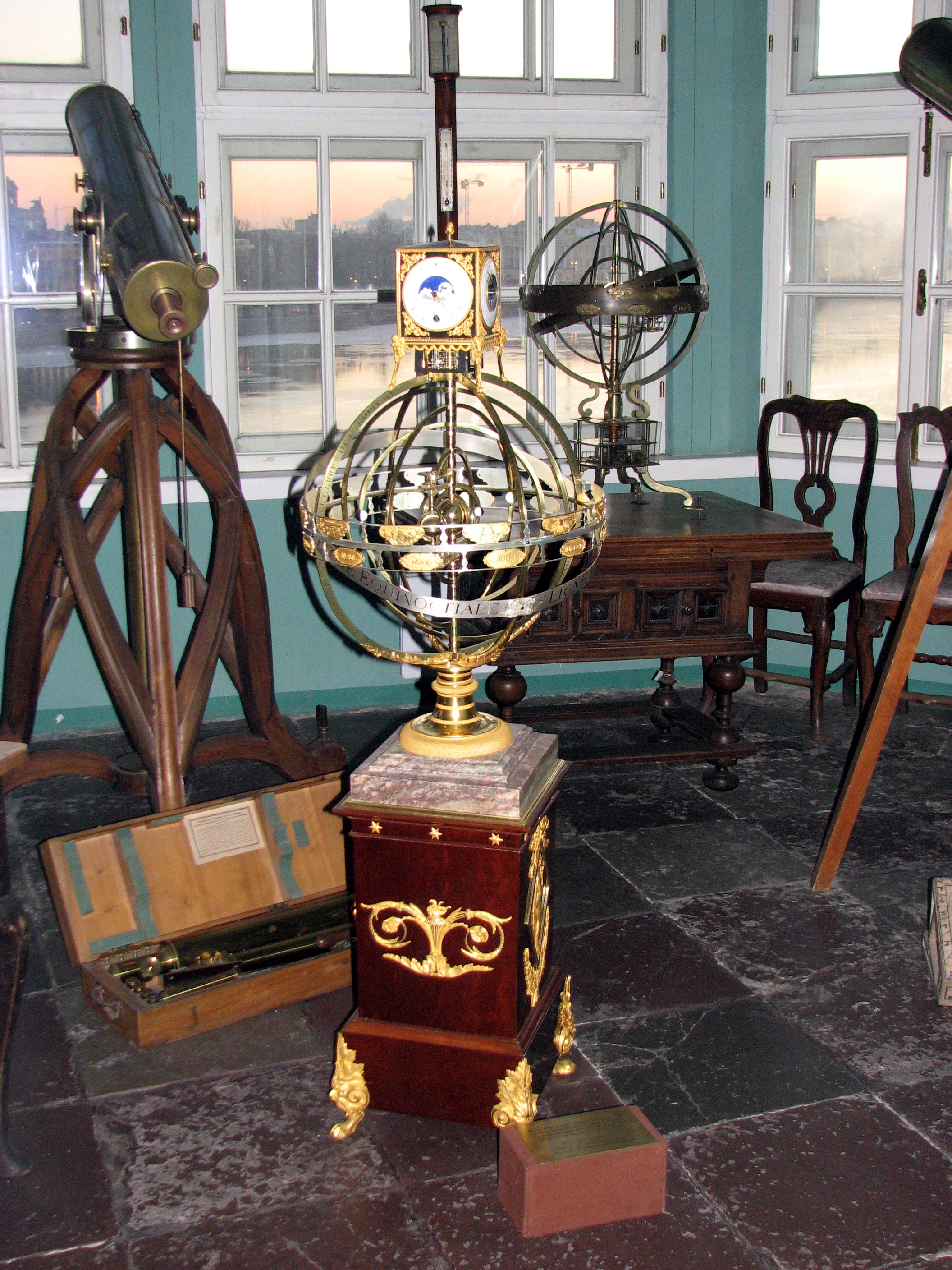 Saint Petersburg. The Kunstkamera. Exposition «The first astronomical observatory of Academy of sciences». In the center: Armillary sphere (France, the XVIII-th century end).